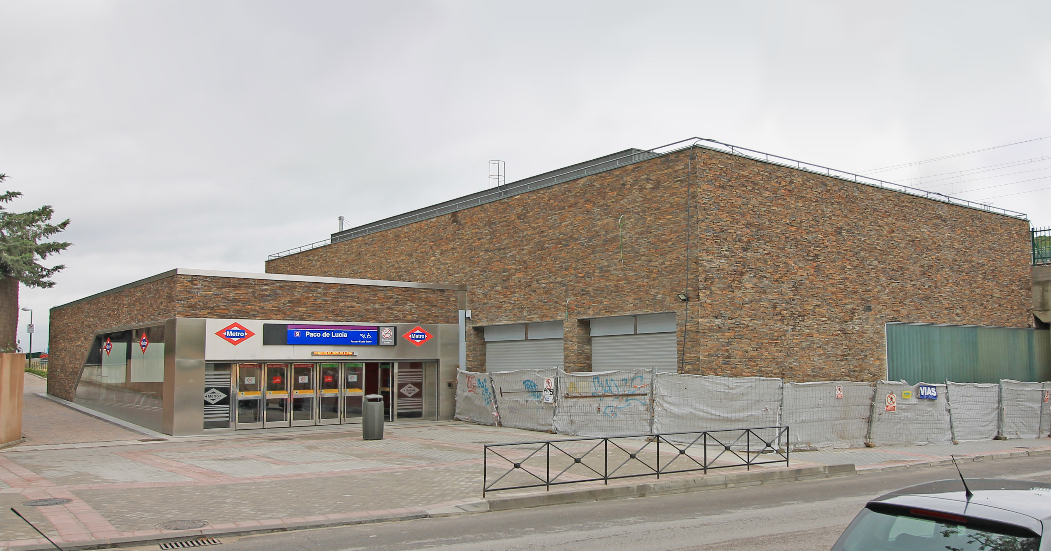 Entrance of Paco de Lucía station in Madrid (Spain).